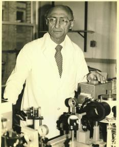 Dr. Martin Pope (born 1918)